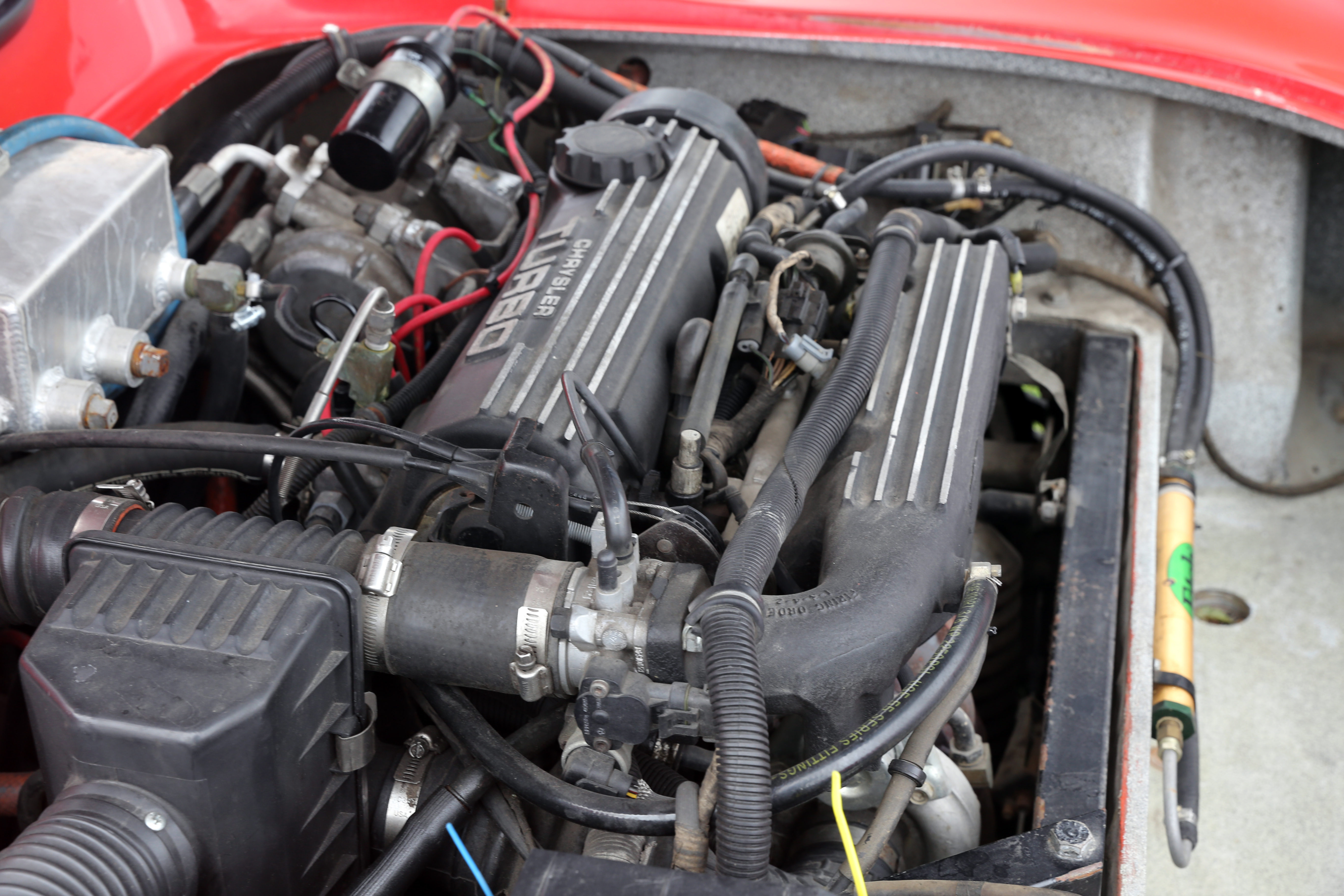 The 2.2 litre turbocharged and intercooled Chrysler engine in a 1990 (prototype) Consulier GTP at the 2014 Lime Rock Concours d'Élegance. Photographed from the left (driver's) side of the car. Ten prototypes were built, of which one more remains. This one used to be John Fitch's personal car.